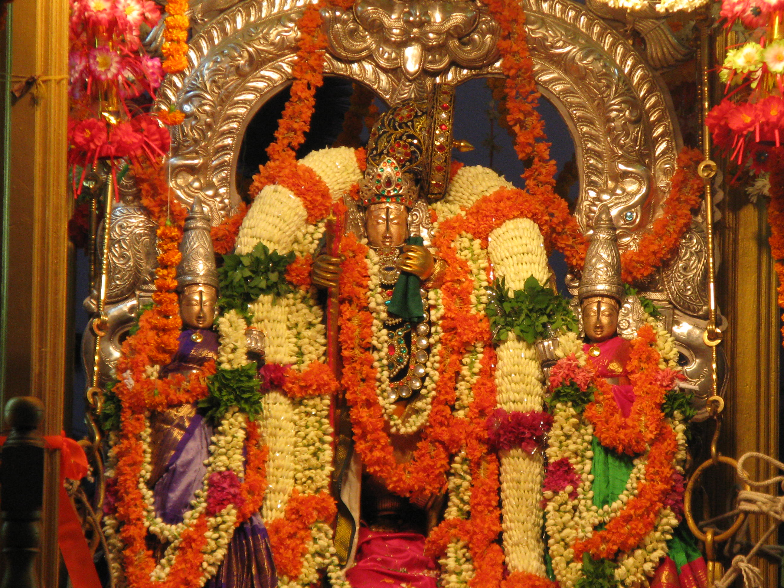 (by Krishna Kishore) Adikesava Embarmannar Swamy Kovela in Narsapuram is a famous temple. It was constructed nearly 300 years back by Prasanagresara Puppala Ramanappa Naidu to fulfill his acharya's desire. This is the similar to Sri Perambhudur Temple in Tamilnadu. Every year Brahmotsavas for Adikeshava swamy and Thirunakshatra Utsavas for Ramanujacharyulu will take place between April and May.